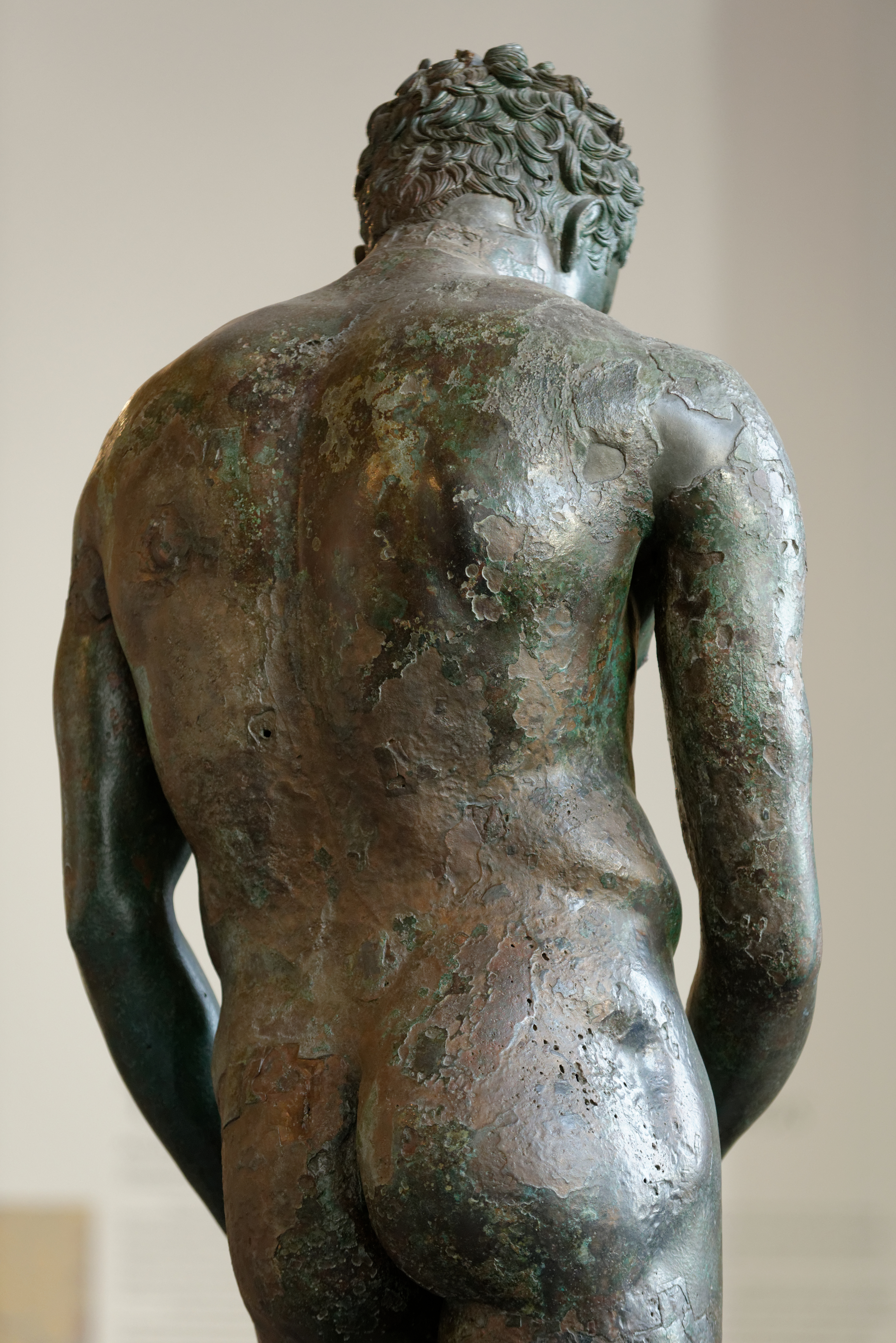 Statue of an athlete scraping himself or scraping his strigil.